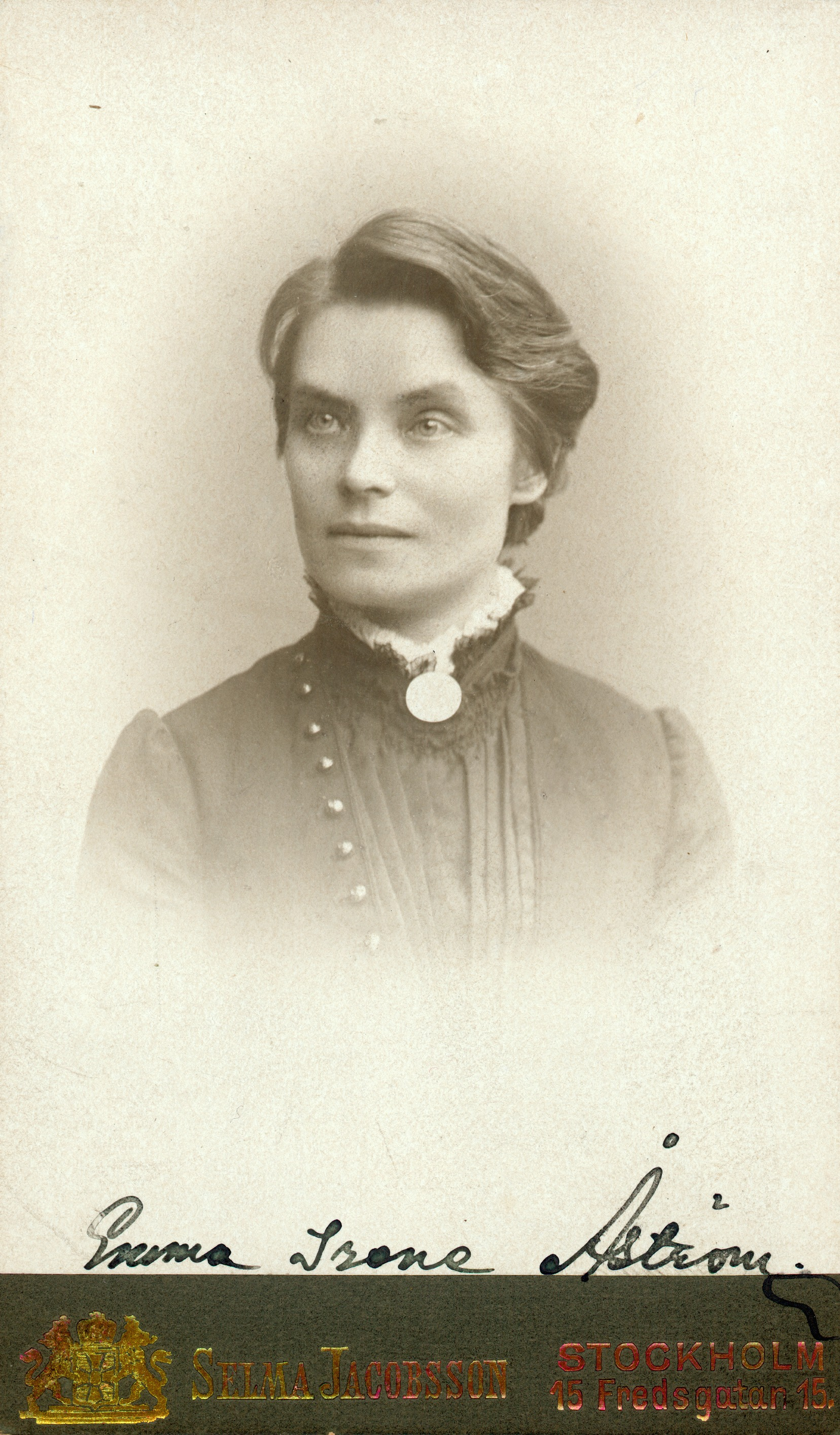 Finland's first woman university graduate Emma Irene Åström, 1847–1934.